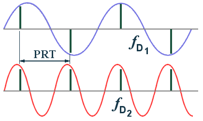 A phase shift can only be measured if the pulse repetition frequency differs from the Doppler frequency (upper example). If the Doppler frequency is equal to the pulse repetition frequency, then the target flying at that speed appears as a fixed target.